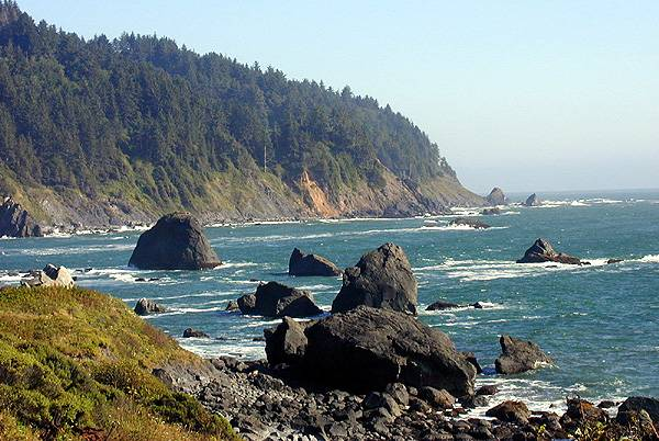 Pacific coast in Redwood National Park